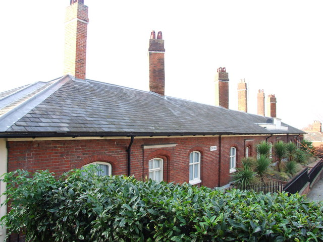 Ancient Hospital of St. Catherines, Rochester Originally dating from 1316, this building was constructed in 1805.